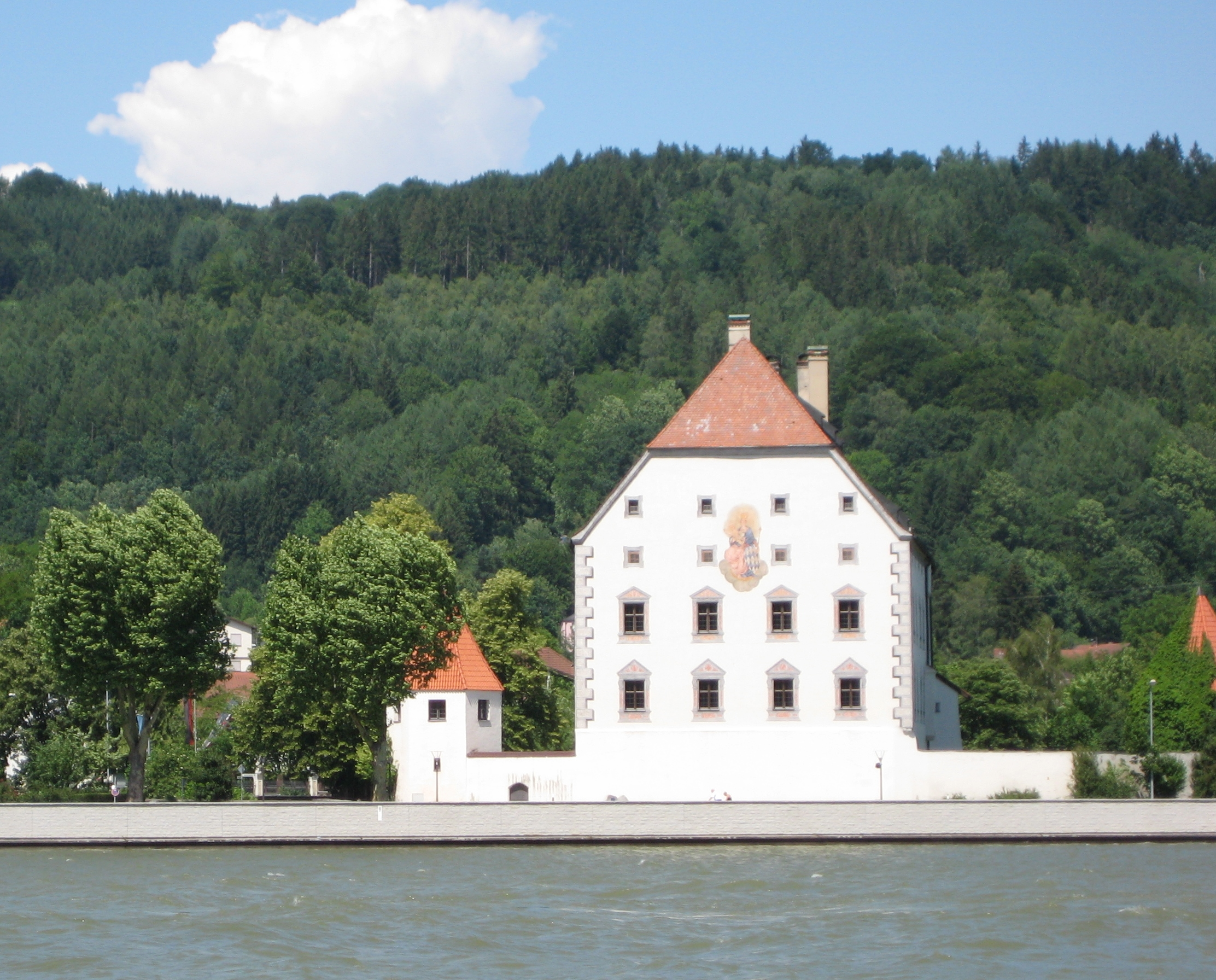 Castle Obernzell